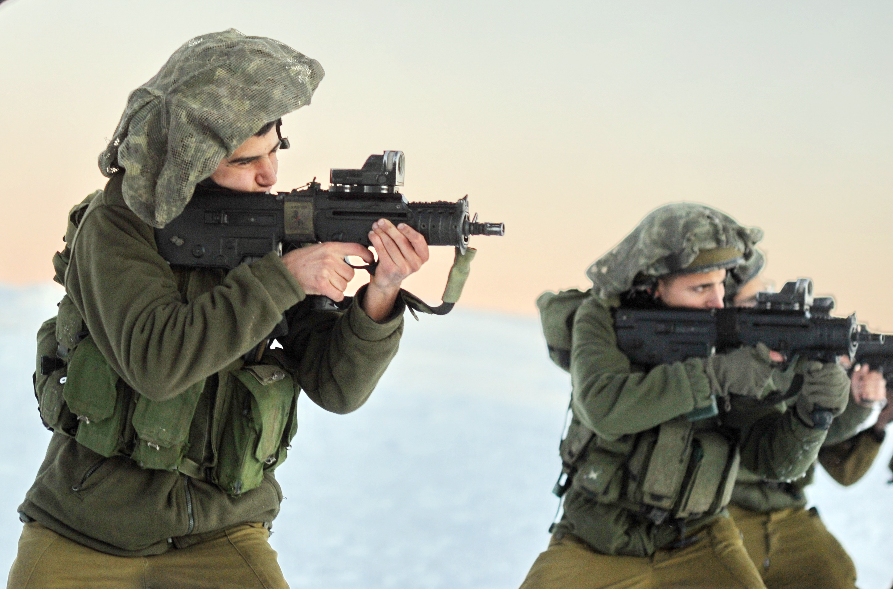 January 14, 2013 Soldiers of the Golani Brigade conduct an exercise in the snowy Mount Hermon. As the brigade of the northern command, Golani is trained in the most extreme conditions. Photo by Shay Wagner, IDF Spokesperson's Unit The Israel Defense Forces Facebook • blog • Twitter